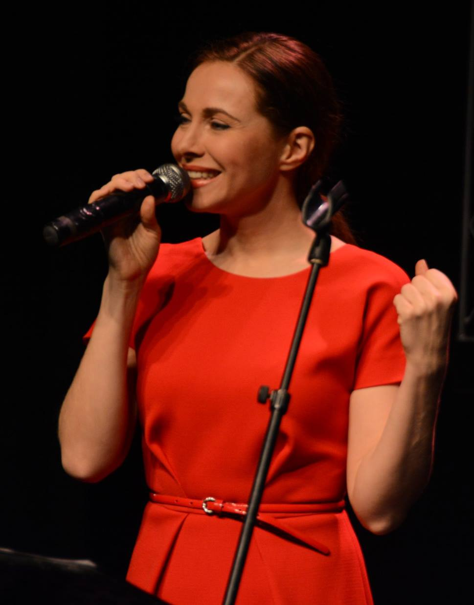 Yekaterina Guseva is a Russian actress and singer